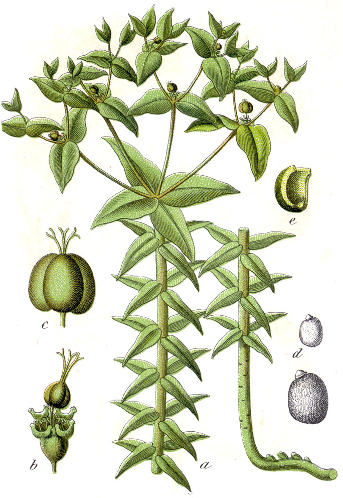 Euphorbia lathyris L., syn. Euphorbia lathyrus L. Original Caption Springwolfsmilch, Euphorbia lathyris